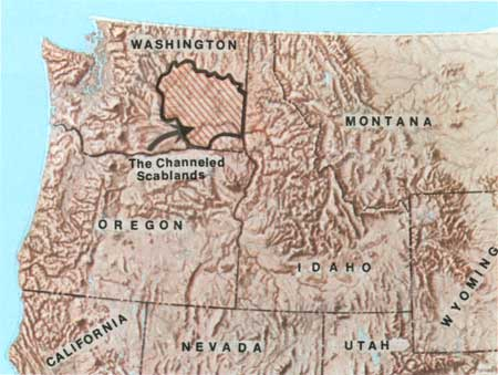 Channeled Scablands on map.